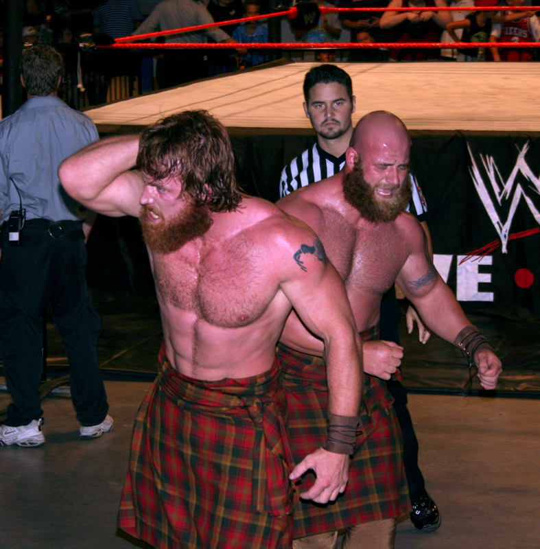 The Highlanders make their entrance on a WWE house show held in Kitchener, Ontario, Canada on August 12, 2005.